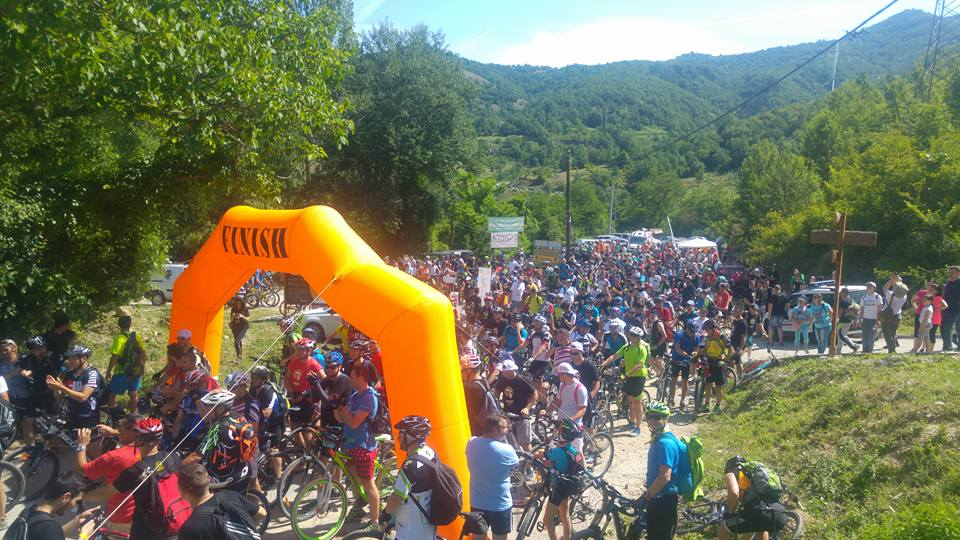 Start of the Alshar mtb festival, Macedonia